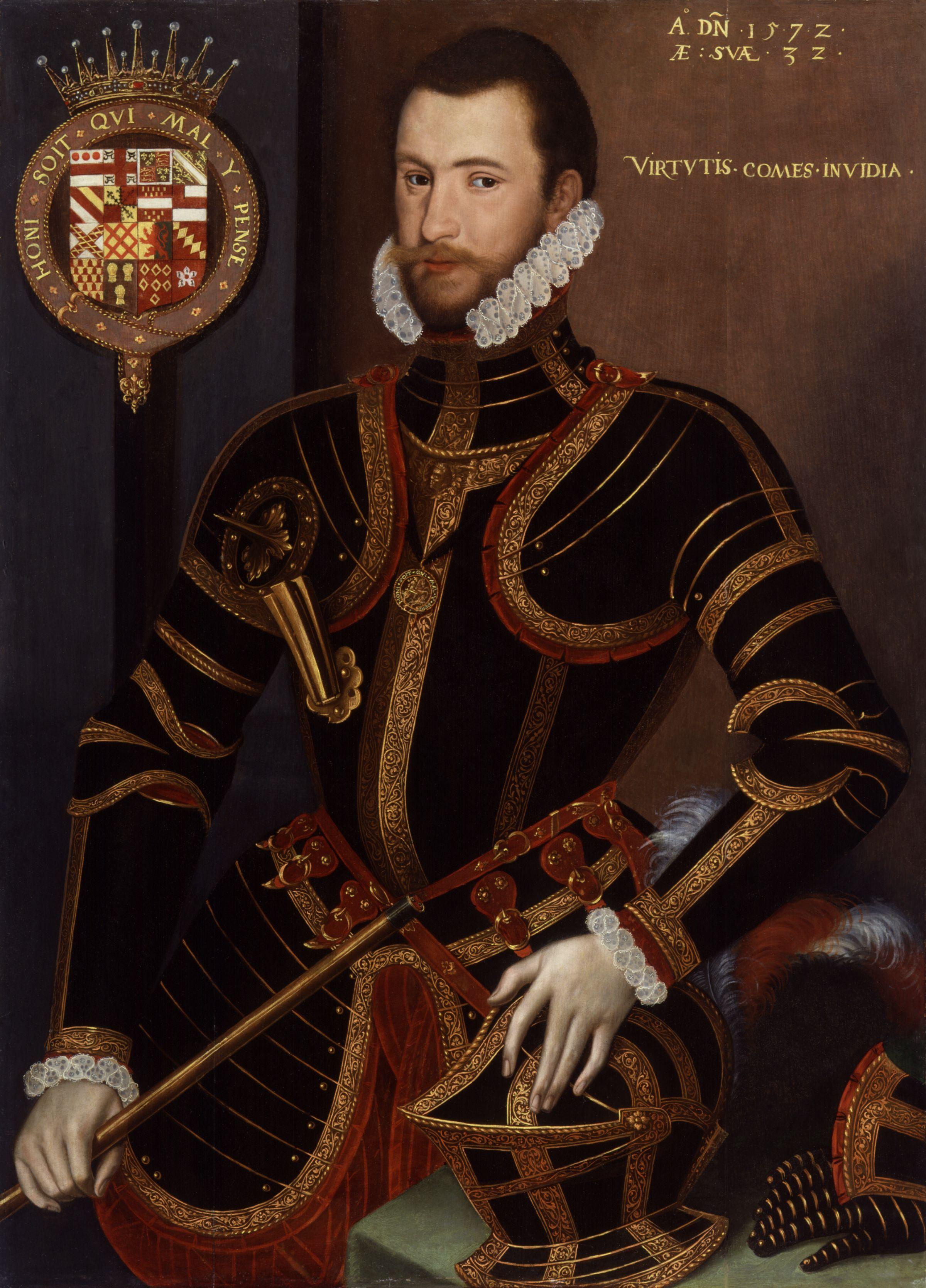 Arms: Quarterly of 16: (Source: Bates, Cadwallader John, The Armorial Glass in the Windows of Montacute House, p.104[1]) 1:Devereux 2:Bourchier 3:Thomas of Woodstock 4:Bohun 5:Or, two bendlets gules (Milo of Gloucester) 6:Mandeville 7:Louvain 8:Woodville 9:Crophule ? 10:Audley ? 11:Le Mareschal 12:Le Mareschal 13:Ferrers, Earl of Derby 14:Earl of Chester 15:De Quincy (Ferrers heiress) 16:Bellomont/Beaumont, Earl of Leicester